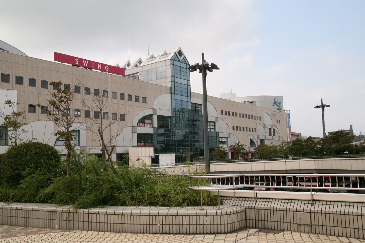 Humos Swing building, location of Izumi-Chūō Station in Sendai, Japan